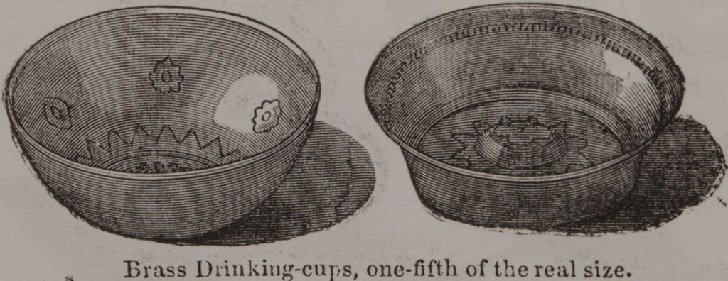 Two engraved drinking cups. . Engraving (prints).